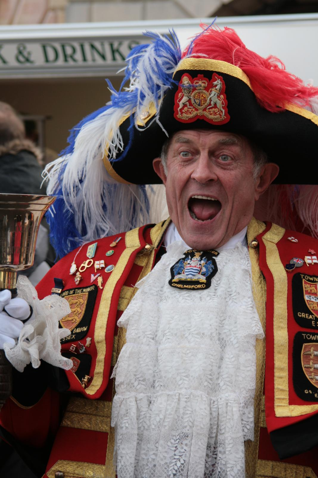 Town crier Tony Appleton at the 7th Annual Christmas Fayre in Bury St Edmunds, Suffolk, England, UK.